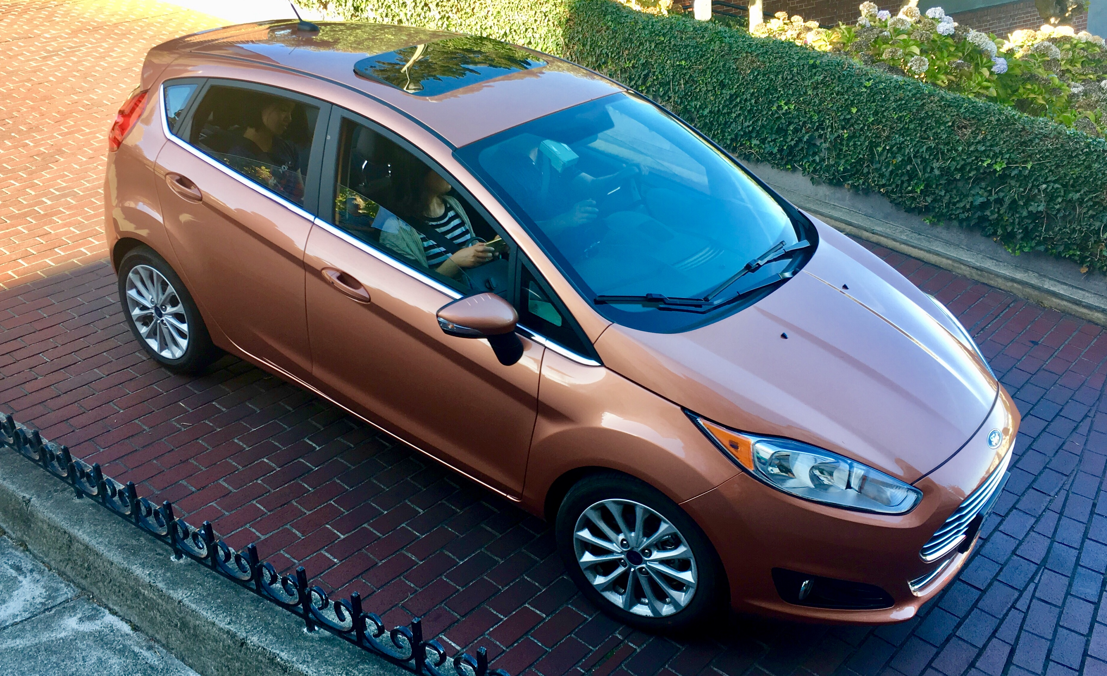 Fiesta